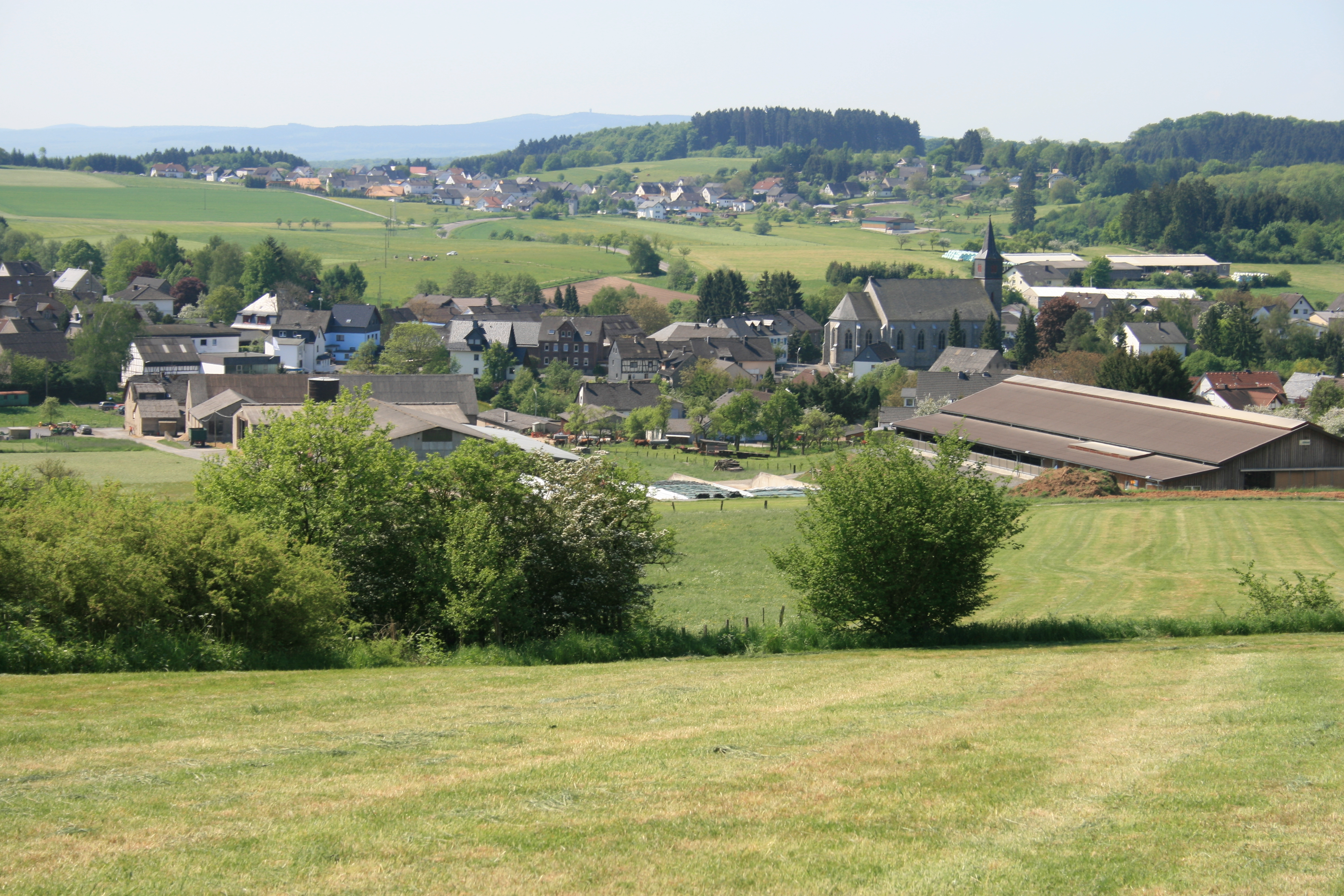 Weidenhahn village portrait. Place: Westerwald, Rhineland-Palatinate, Germany. In the background is Ewighausen and at the horizon Montabaurer Höhe